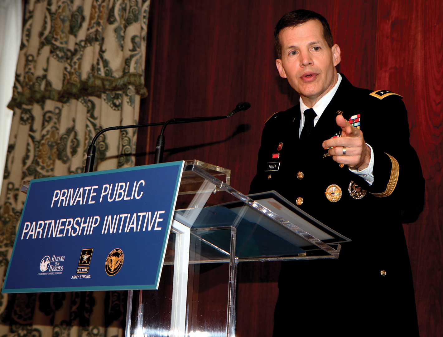 Talley P3